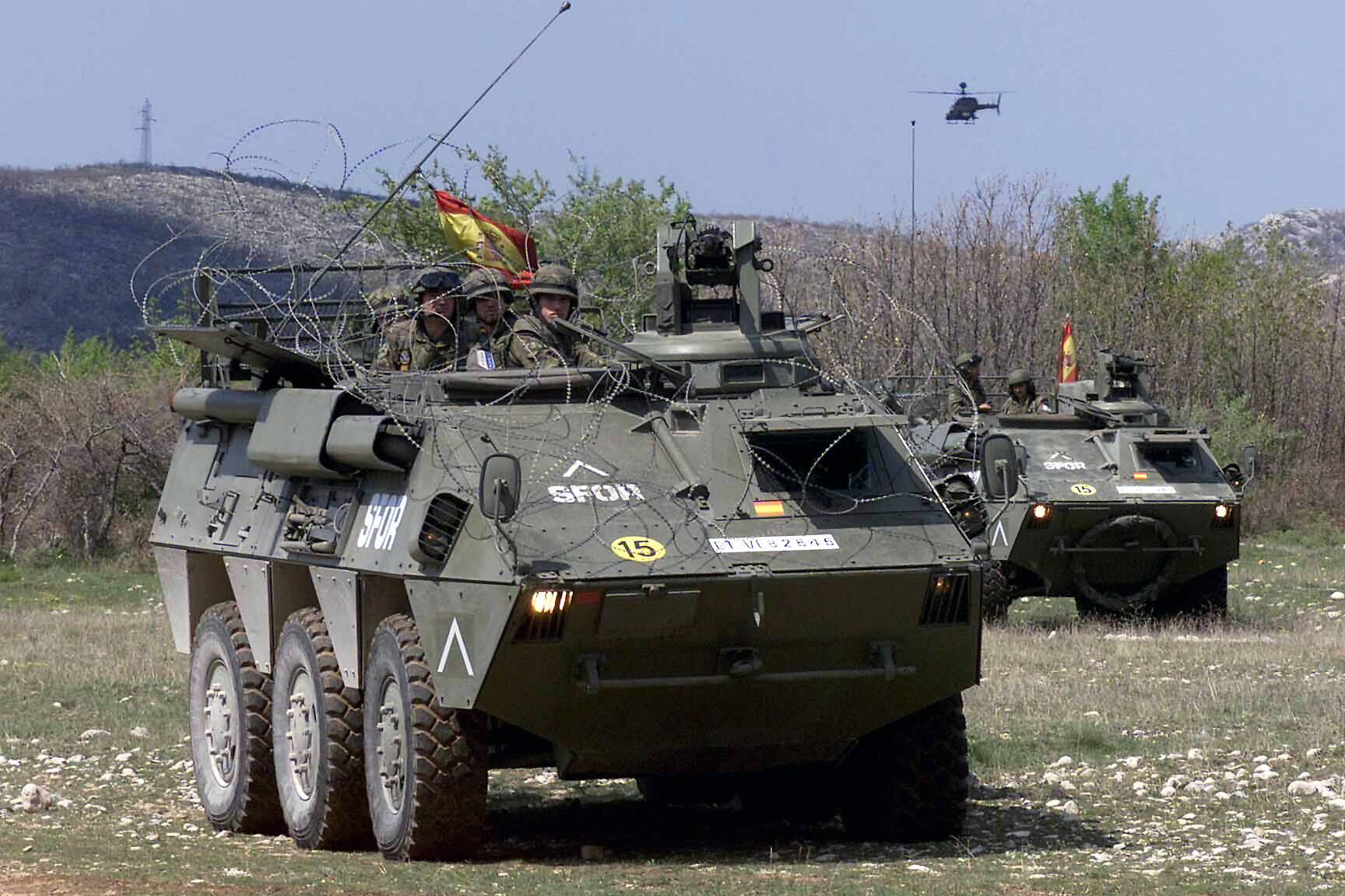 Spanish Army Soldiers, assigned to the Stabilization Force (SFOR) bring their BMR-600 Infantry Fighting Vehicles (IFV), into place during a riot control exercise conducted at Camp Butmir, Bosnia and Herzegovina (BiH), during Exercise JOINT RESOLVE 26. (Released to Public) Location: CAMP BUTMIR, SARAJEVO BOSNIA AND/I HERZEGOVINA (BIH)